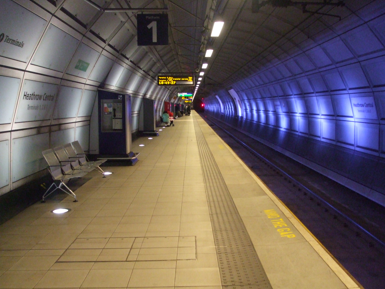 Heathrow Central station westbound platform looking east. Served by both Heathrow Express (onwards to Terminal 5 only) and Heathrow Connect (onwards to Terminal 4 only). Services between the terminals are free of charge.